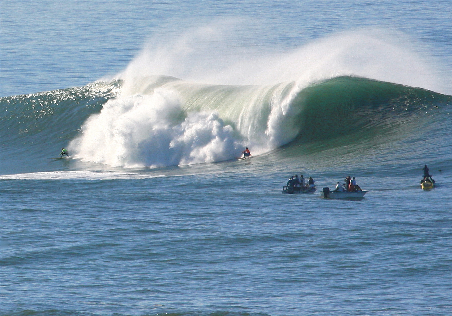 Surfers at Mavericks, a world-renowned big wave break a half mile off the coast of Half Moon Bay, California